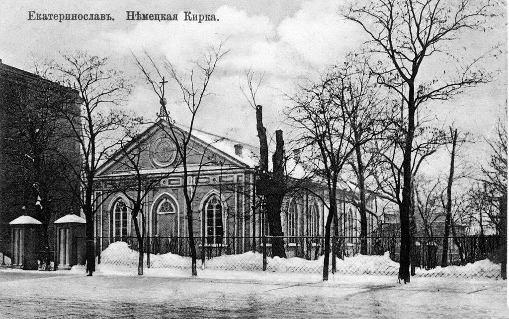 Фото начала 20 века.